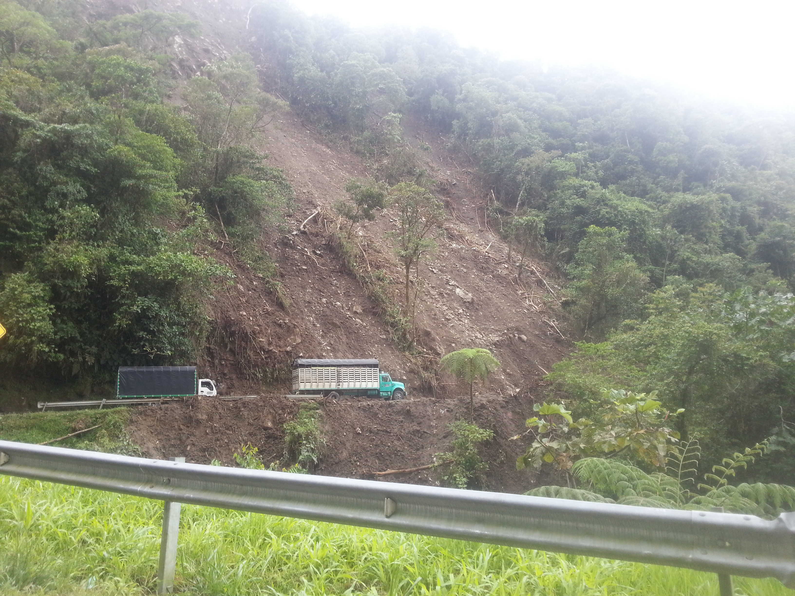 An avalanche on a road in Mocoa in 2015